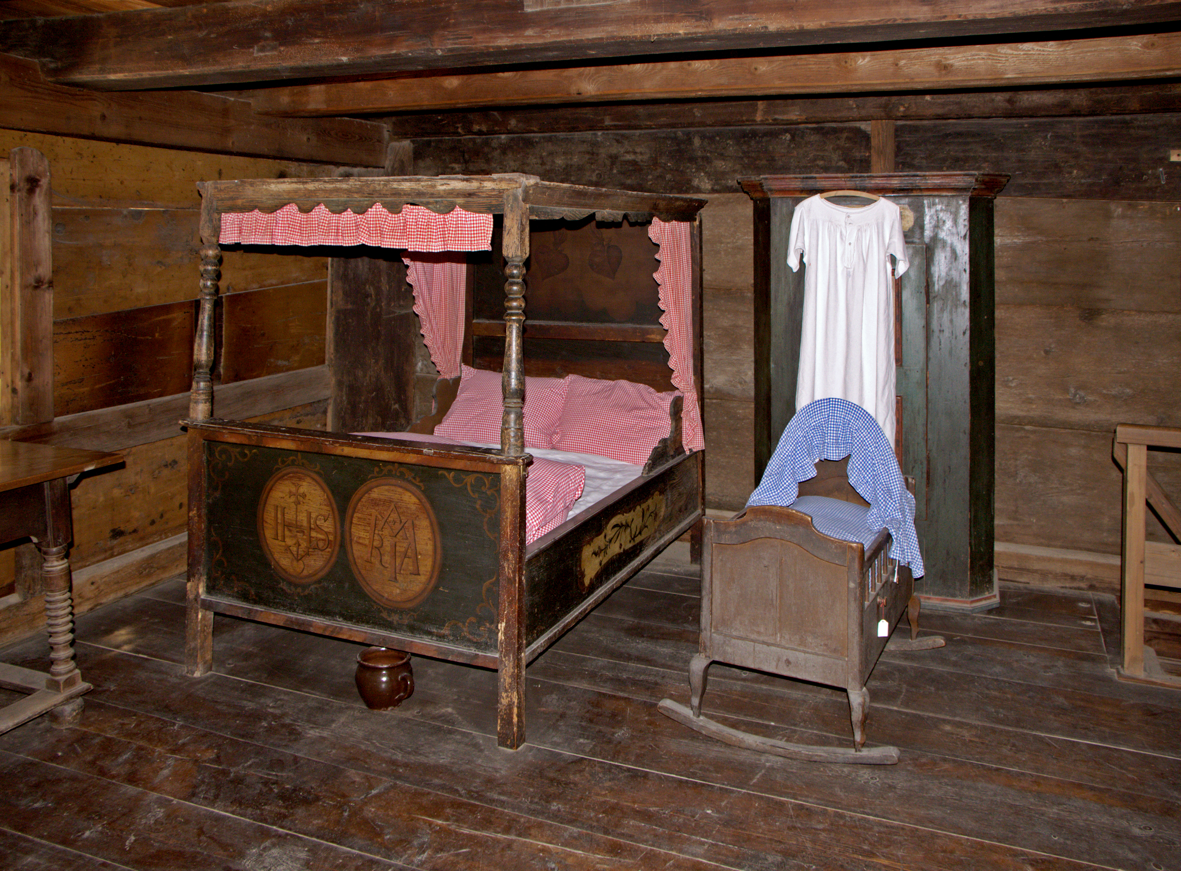 Bedroom in the farm house "Hippenseppenhof" (built in 1599), Black Forest Open Air Museum, Gutach, Germany.